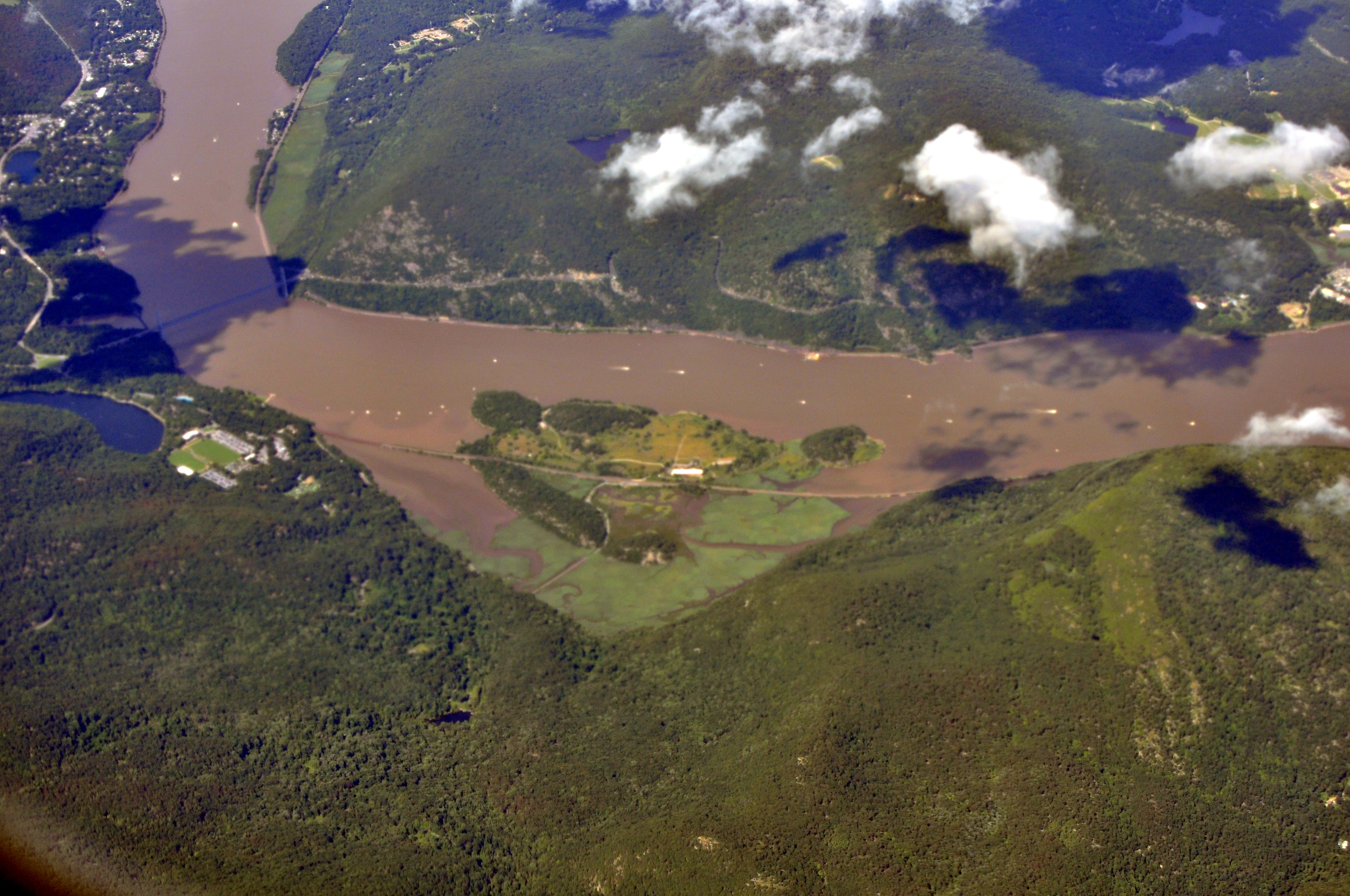 Iona Island in the Hudson River, Rockland County, New York. On the other side of the river is Westchester County. Aerial view looking northeast.